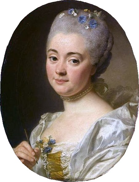 wife of Joseph-Marie Vien